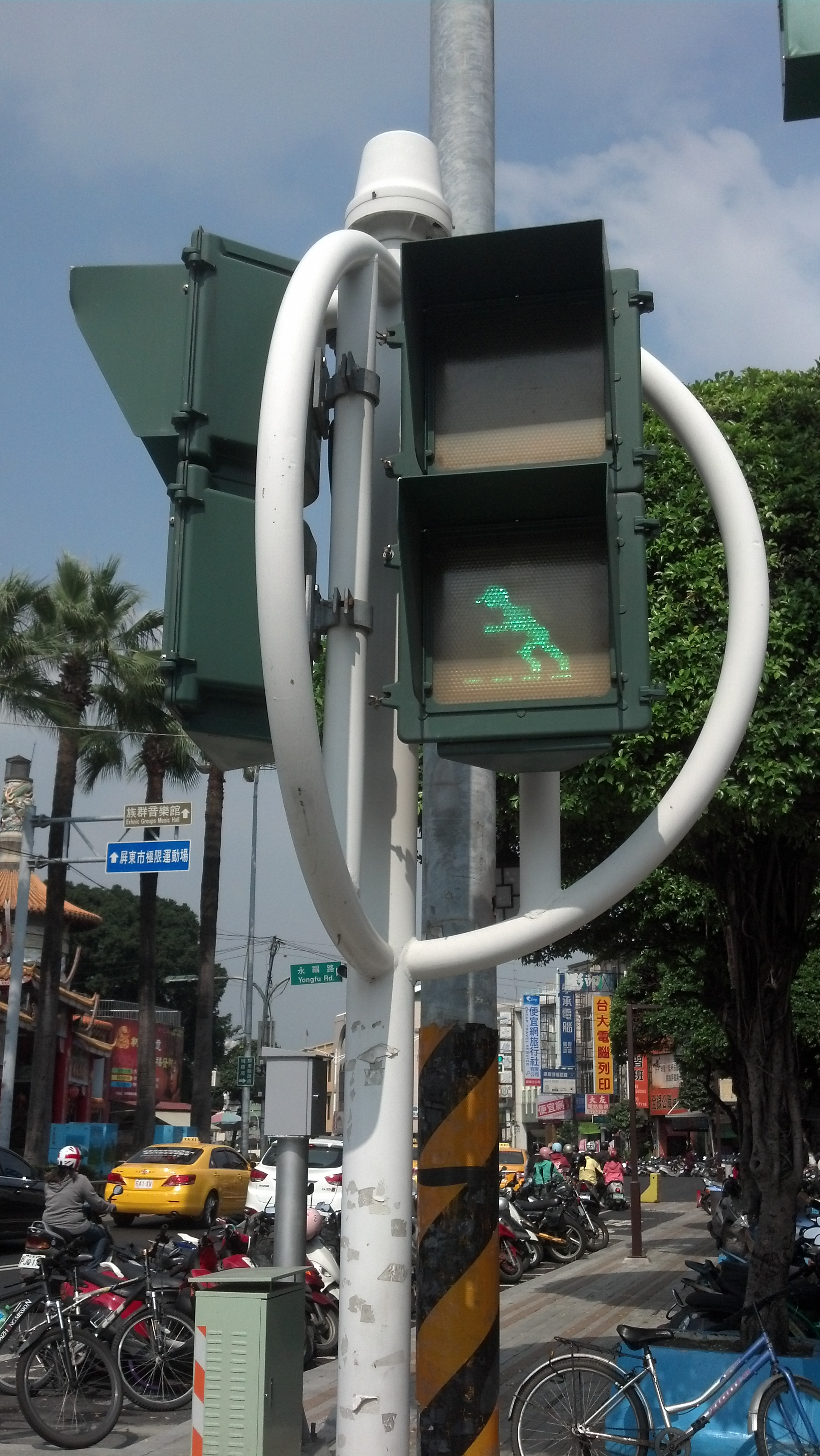 Xiaoluren in Pingtung City